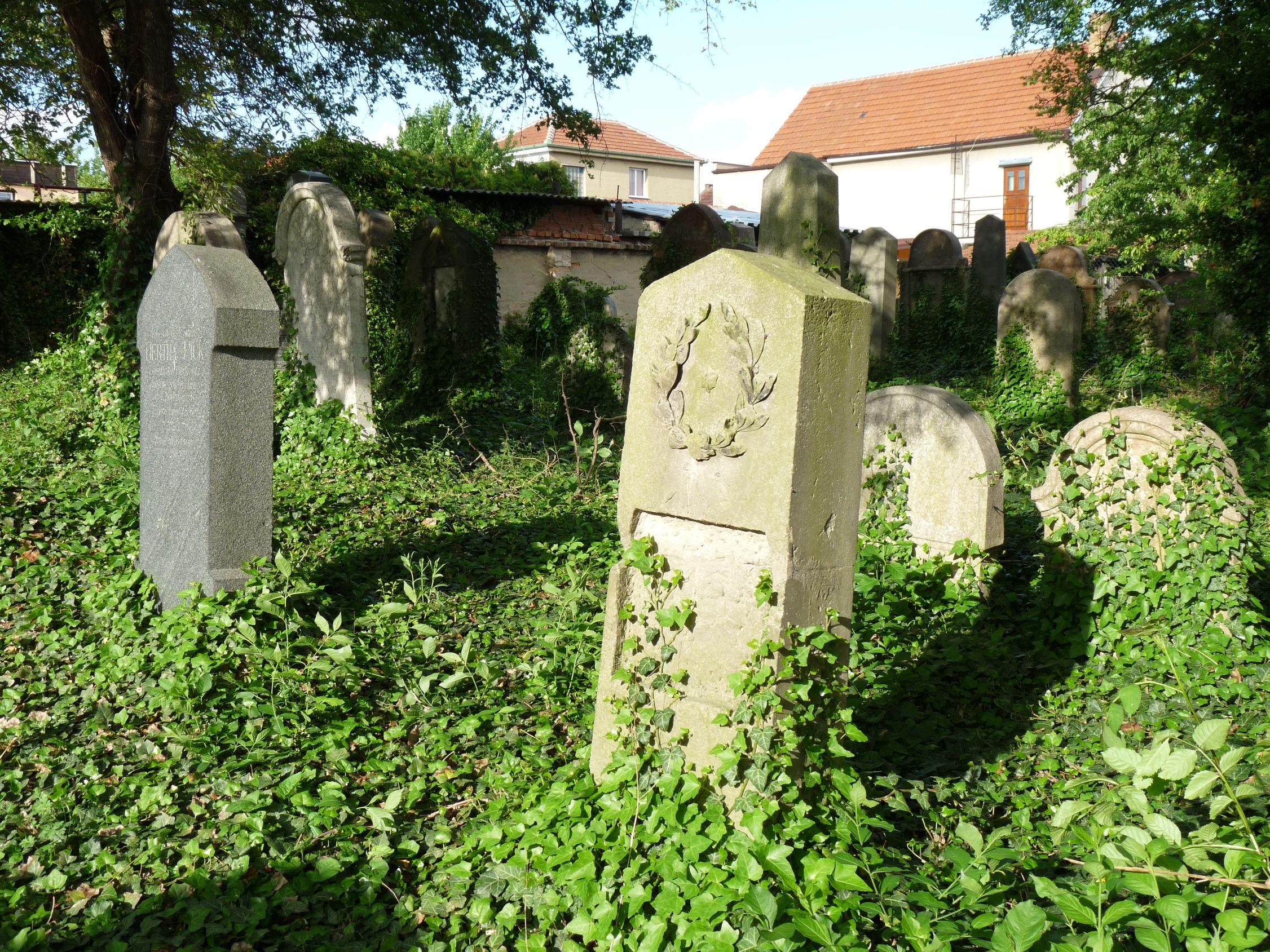 Jewish cemetery in the munucipality of Byšice, Mělník District, Central Bohemian Region, Czech Republic.